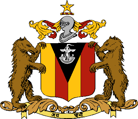 Sawantwadi State coat of arms This work is in the public domain in India because its term of copyright has expired. The Indian Copyright Act applies in India, to works first published in India. According to The Indian Copyright Act, 1957 (Chapter V Section 25), Anonymous works, photographs, cinematographic works, sound recordings, government works, and works of corporate authorship or of international organizations enter the public domain 60 years after the date on which they were first published, counted from the beginning of the following calendar year (ie. as of 2018, works published prior to 1 January 1958 are considered public domain). Posthumous works (other than those above) enter the public domain after 60 years from publication date. Any other kind of work enters the public domain 60 years after the author's death. Text of laws, judicial opinions, and other government reports are free from copyright. Photographs created before 1958 are in the public domain 50 years after creation, as per the Copyright Act 1911. This file may not be in the public domain outside India. The creator and year of publication are essential information and must be provided. See Wikipedia:Public domain and Wikipedia:Copyrights for more details. This image shows a flag, a coat of arms, a seal or some other official insignia. The use of such symbols is restricted in many countries. These restrictions are independent of the copyright status.